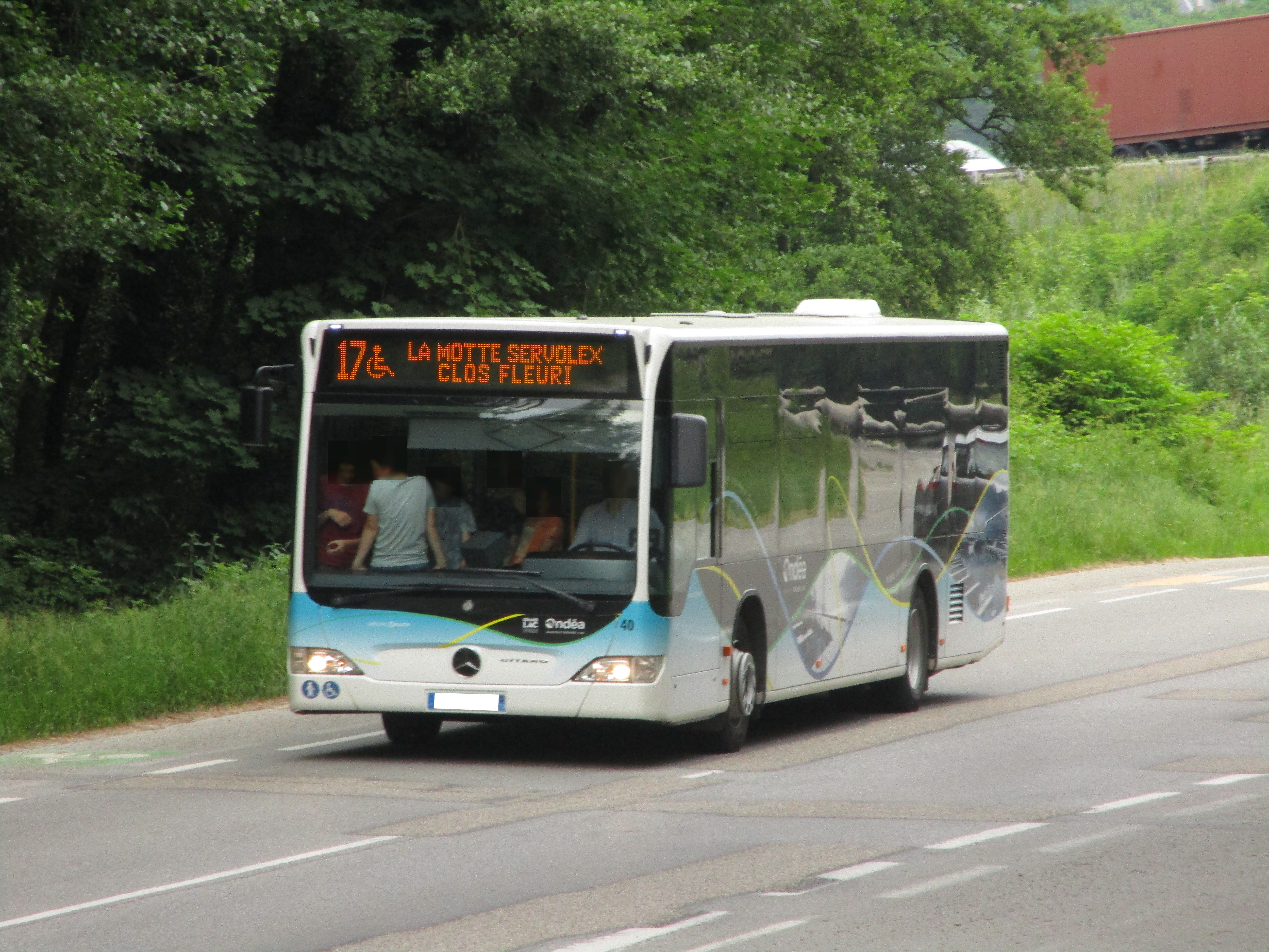 A Mercedes-Benz Citaro CI Facelift (n°40 of the CTLB) running on Ondéa’s line 17 — Plage, Le Bourget-du-Lac↔Clos Fleuri, La Motte-Servolex — on Tremblay’s Road (La Motte-Servolex, France) — on May 30, 2017.